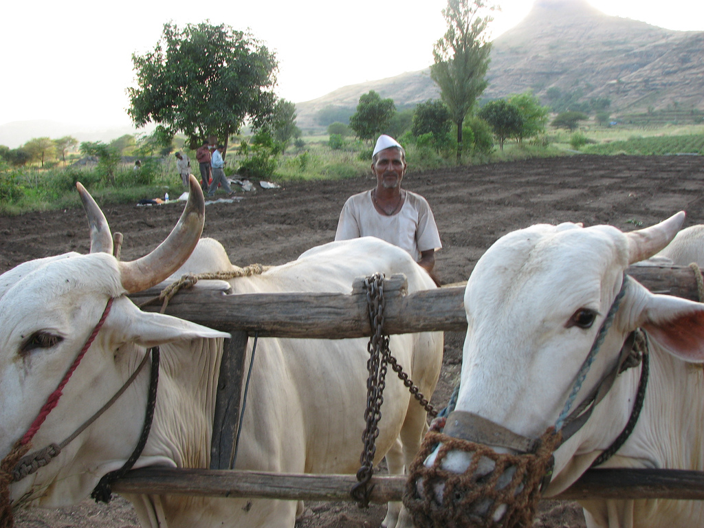 Farmer and bullocks. Tambhol Village, November, 2006 Photo by Dan Tunstall. 2006.